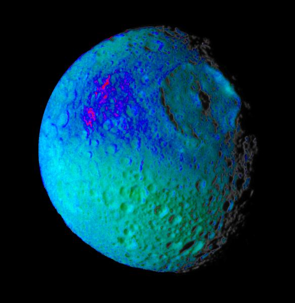 This false color image of Saturn's moon Mimas reveals variation in either the composition or texture across its surface. During its approach to Mimas on Aug. 2, 2005, the Cassini spacecraft narrow-angle camera obtained multi-spectral views of the moon from a range of 228,000 kilometers (142,500 miles). This image is a color composite of narrow-angle ultraviolet, green, infrared and clear filter images, which have been specially processed to accentuate subtle changes in the spectral properties of Mimas' surface materials. To create this view, three color images (ultraviolet, green and infrared) were combined with a single black and white picture that isolates and maps regional color differences to create the final product. Shades of blue and violet in the image at the right are used to identify surface materials that are bluer in color and have a weaker infrared brightness than average Mimas materials, which are represented by green. Herschel crater, a 140-kilometer-wide (88-mile) impact feature with a prominent central peak, is visible in the upper right of the image. The unusual bluer materials are seen to broadly surround Herschel crater. However, the bluer material is not uniformly distributed in and around the crater. Instead, it appears to be concentrated on the outside of the crater and more to the west than to the north or south. The origin of the color differences is not yet understood. It may represent ejecta material that was excavated from inside Mimas when the Herschel impact occurred. The bluer color of these materials may be caused by subtle differences in the surface composition or the sizes of grains making up the icy soil. This image was obtained when the Cassini spacecraft was above 25 degrees south, 134 degrees west latitude and longitude. The Sun-Mimas-spacecraft angle was 45 degrees and north is at the top.